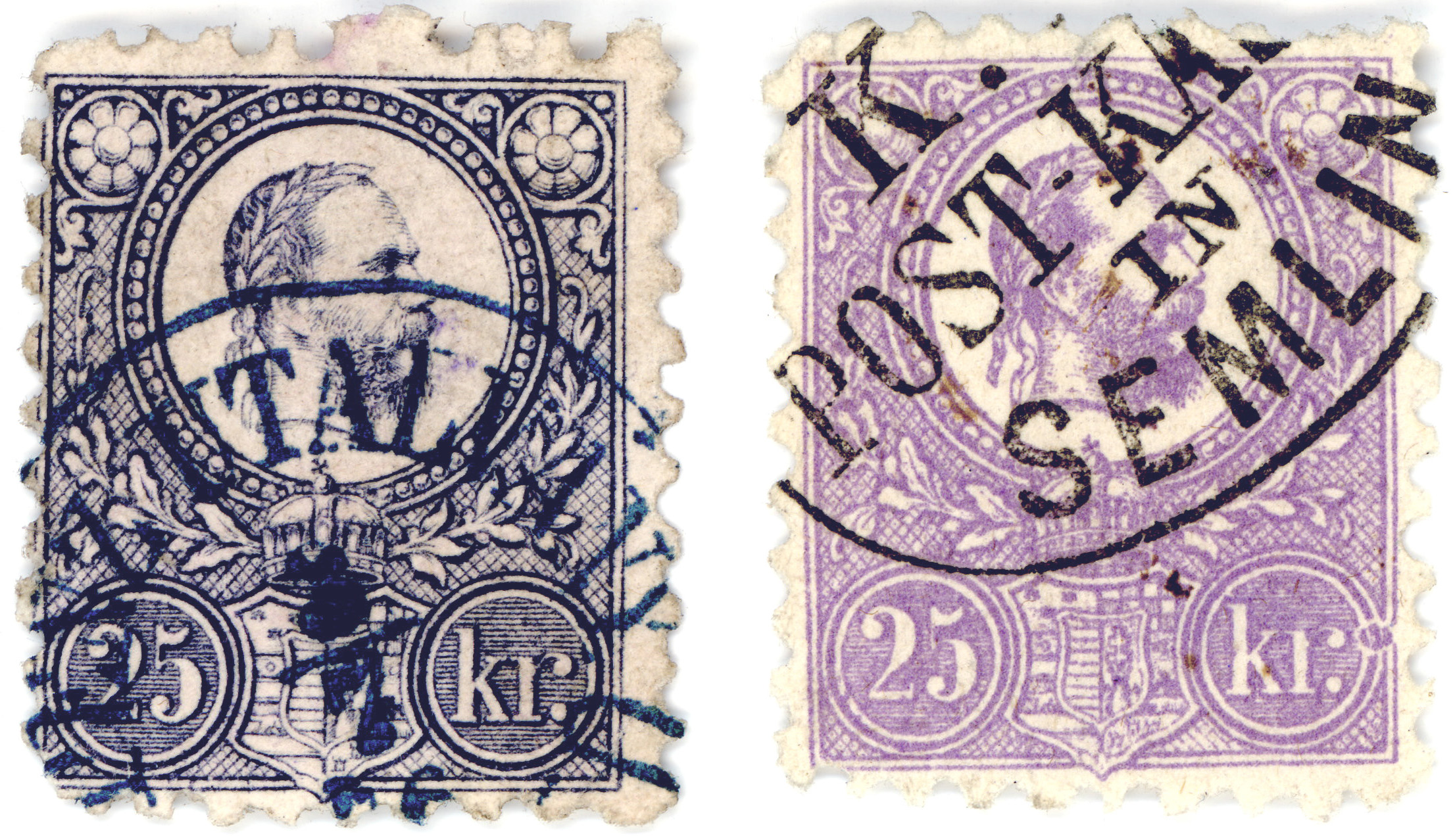 Engraved (left stamp) and litho (right stamp) issues of the 1871 Hungarian stamp 25 kr Catalogue: Sc. 6 (r) and 12 (l), Mi. 6 (r) and 13 (l)